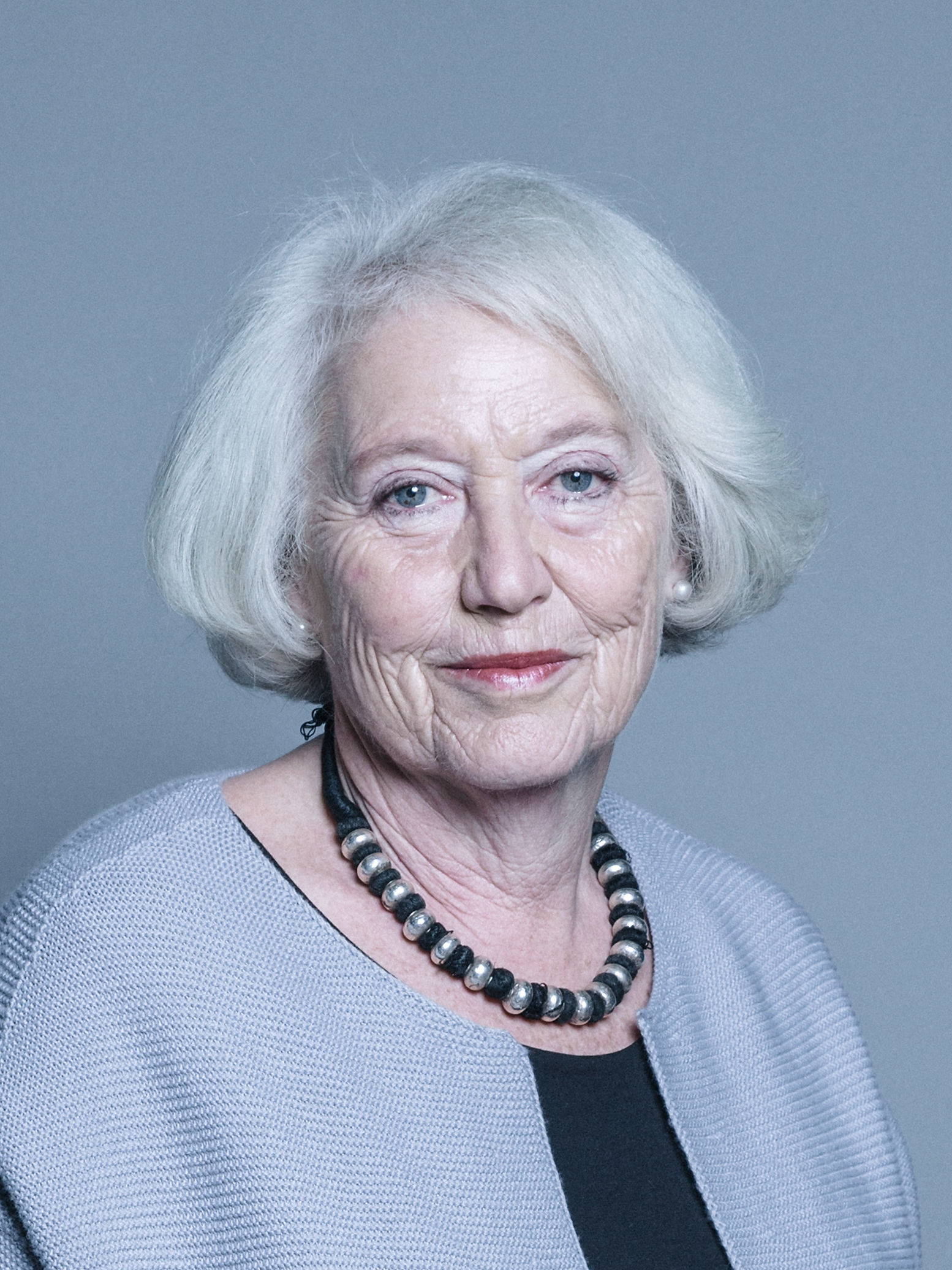 Official portrait of Baroness Hayman